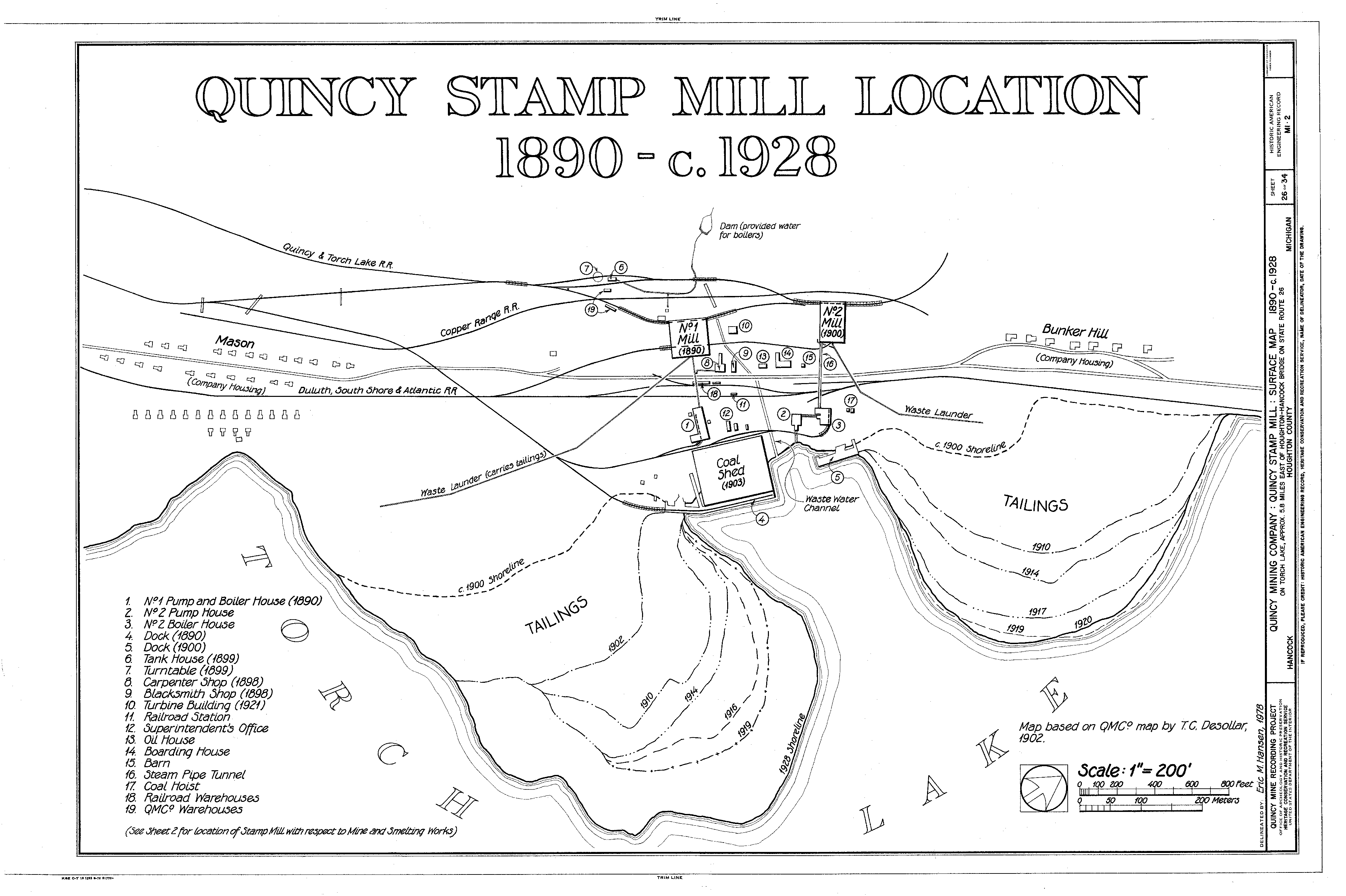 Drawing of layout of the Quincy Stamping Mills, near Mason in Houghton County MI.